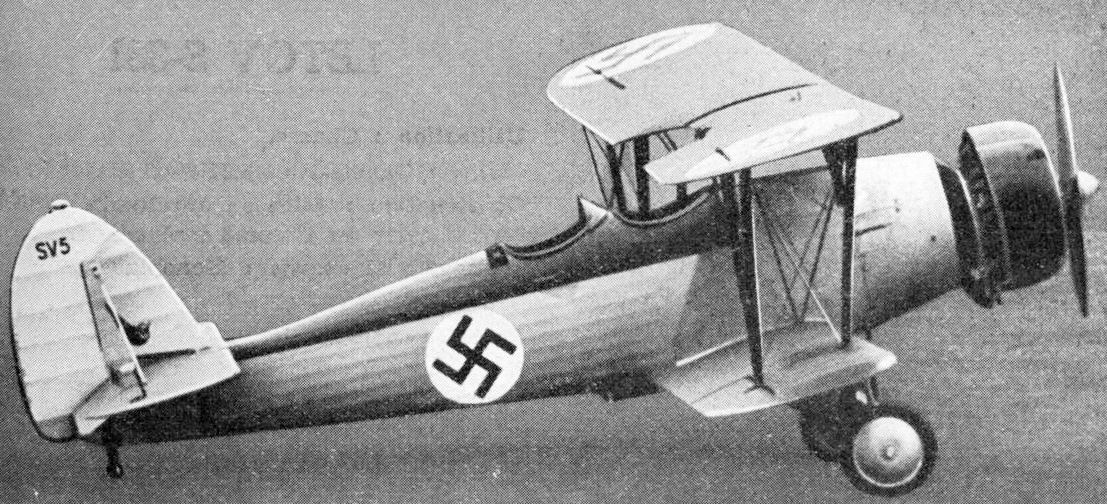 Stampe et Vertongen SV-5 photo from Le Pontential Aérien Mondial 1936